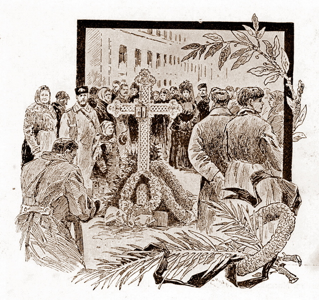 Временный крест, сооружённый на средства офицеров Киевского полка на месте убиения великого князя Сергея Александровича в 1905 году